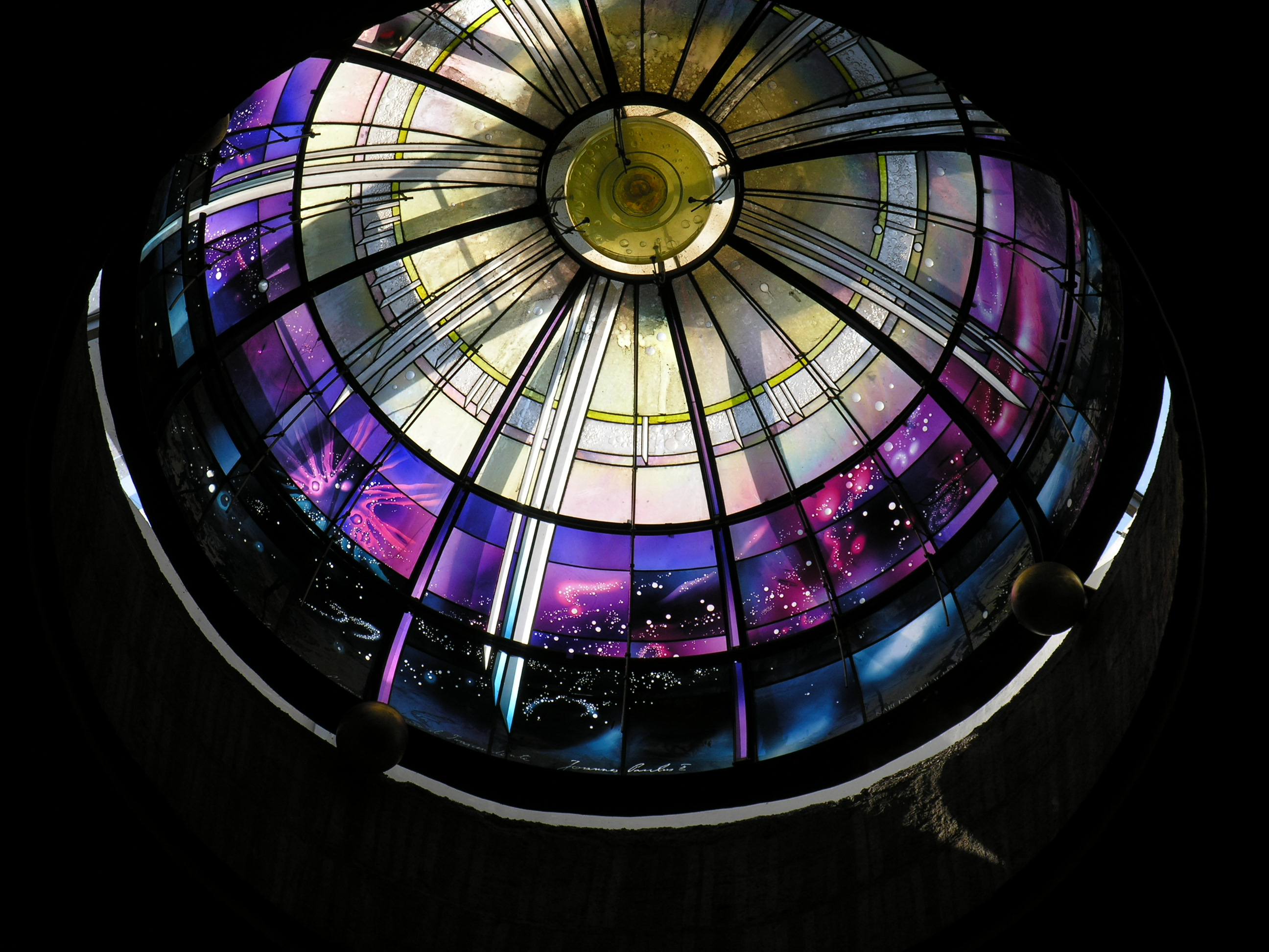 Stained glass dome, lobby of Santa Maria degli Angelo (Rome)